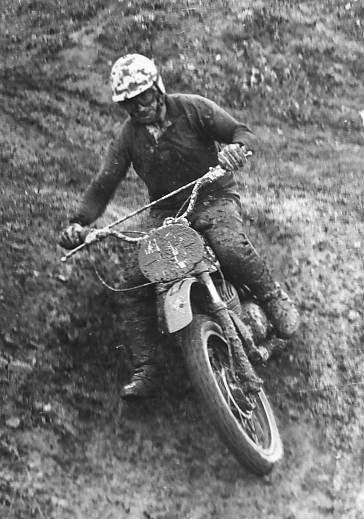 Pere Pi in a muddy motocross during the 60's